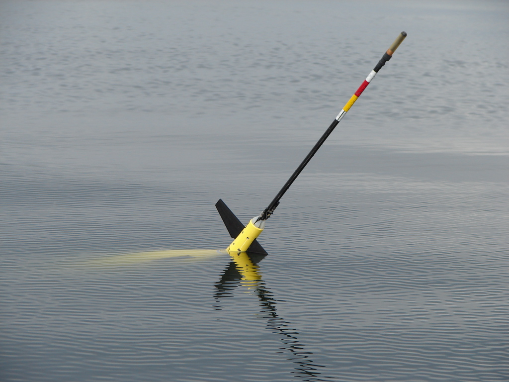 Seaglider autonomous undersea glider at surface after dive